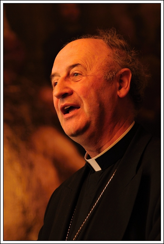 Jan Graubner, Roman Catholic Archbishop of Olomouc, Czech Republic.